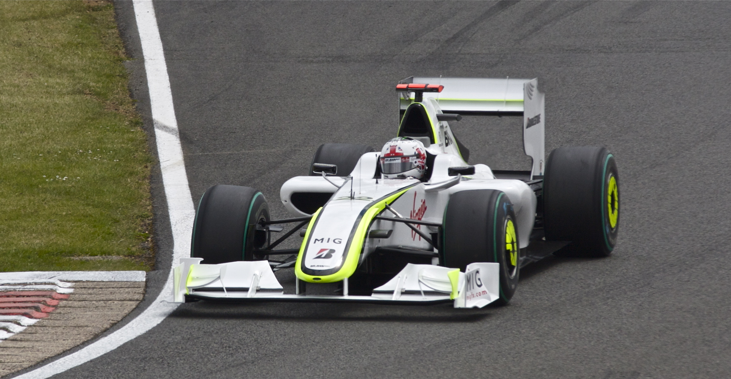 Jenson Button at the 2009 British Grand Prix, Silverstone, UK.